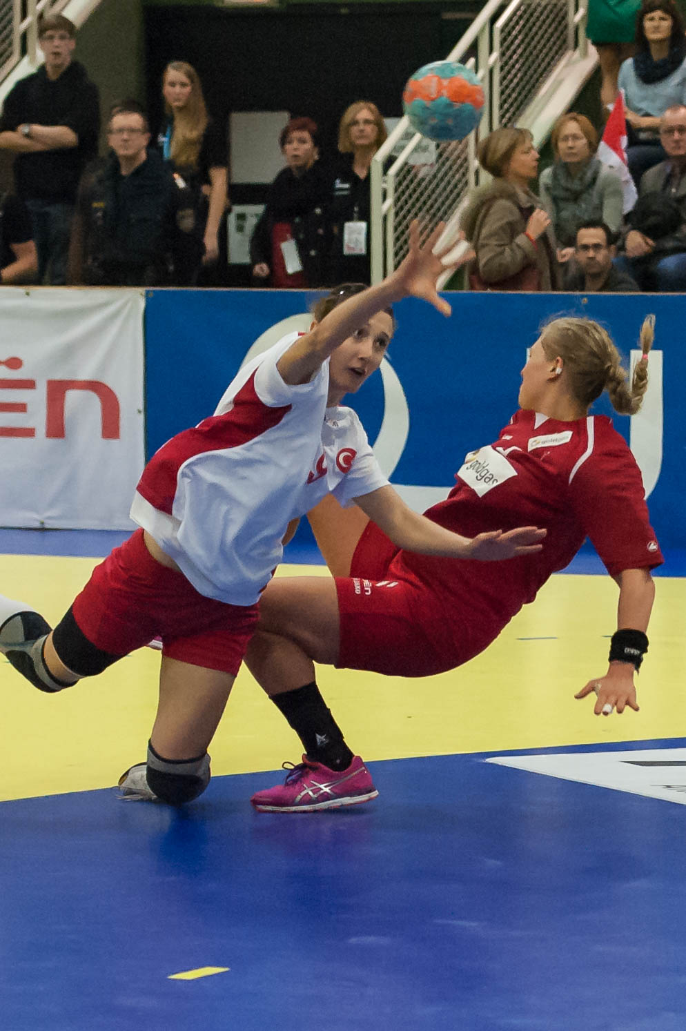 2015 World Women's Handball Championship Qualification 2014-12-06: Aslı İskit